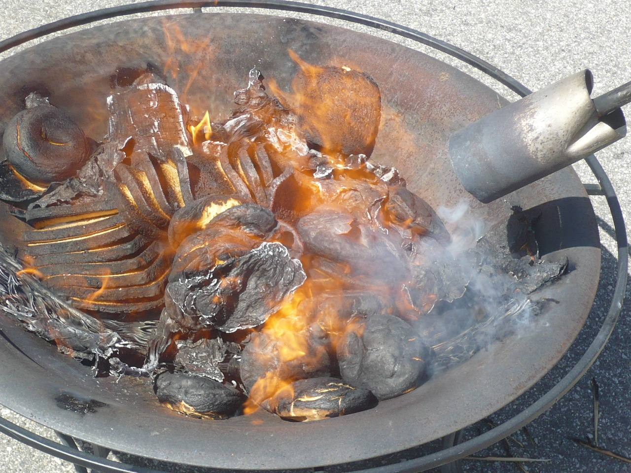 Biur Chametz 2010, Valley Beth Shalom, Encino, CA